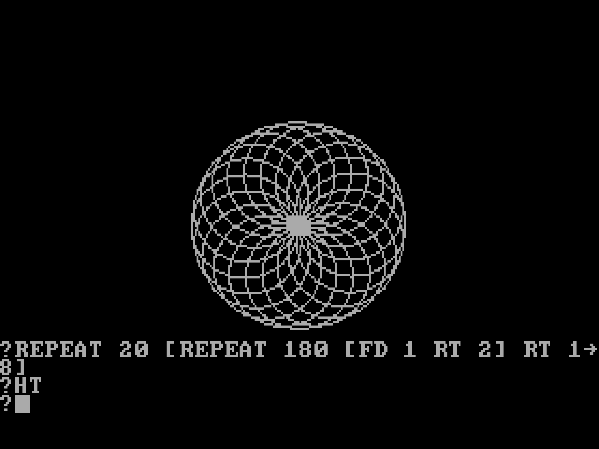 The pattern composed of 20 circles appearing in the screenshot was created with the following source code: REPEAT 20 [REPEAT 180 [FD 1 RT 2] RT 18]